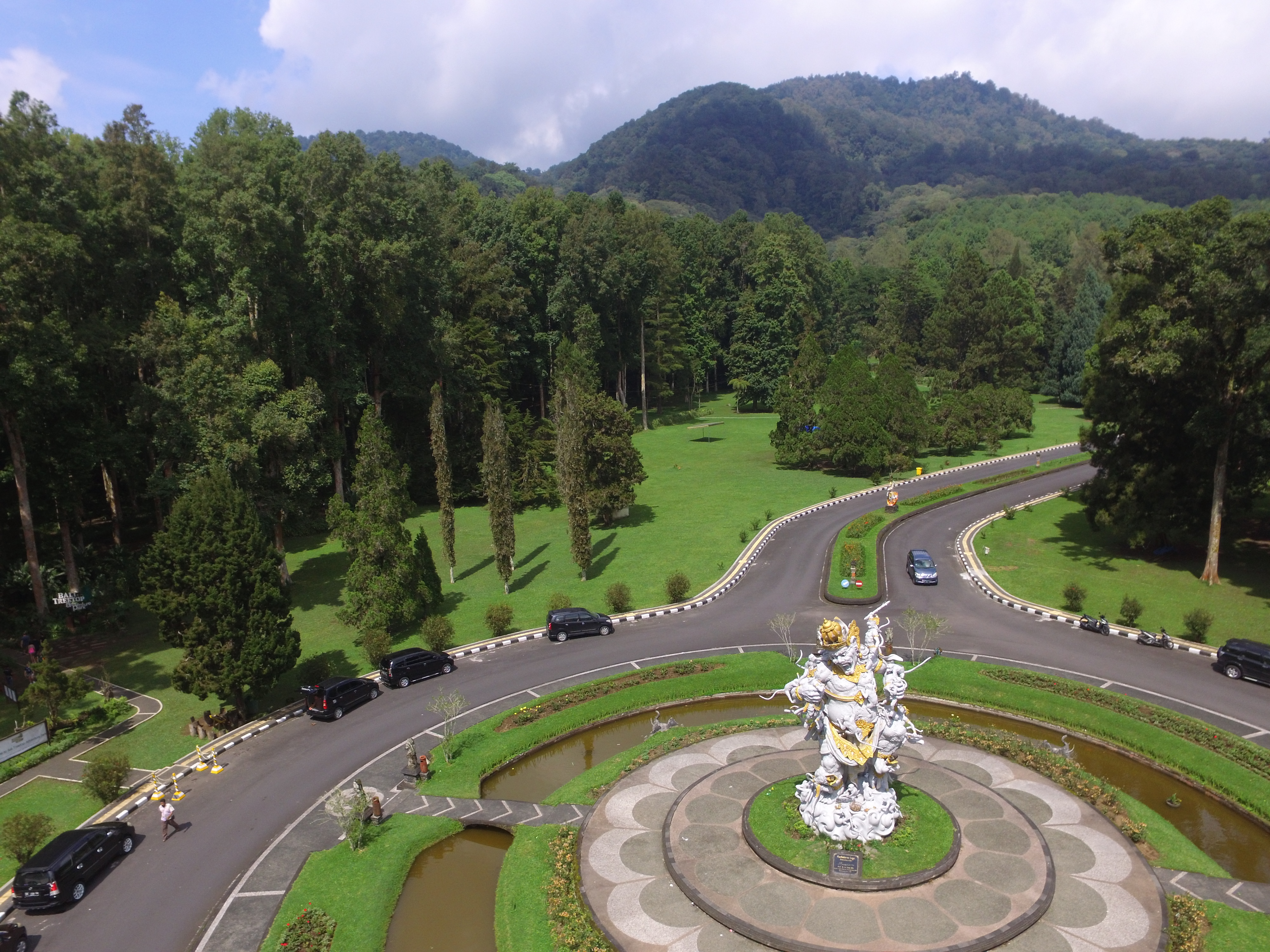 Bali Botanic Garden aerial view, nestled in the cool, mountainous region of Bedugul, central Bali. Indonesia's largest botanic garden.